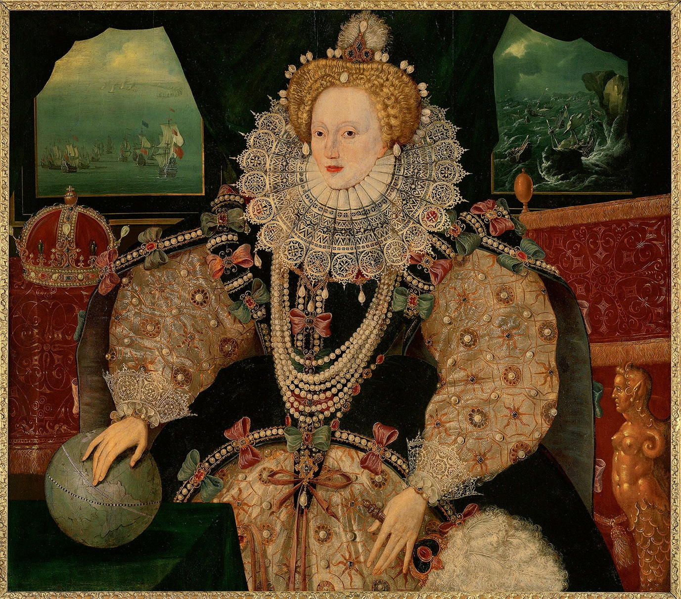 The Armada Portrait of Elizabeth I, English school, c. 1590